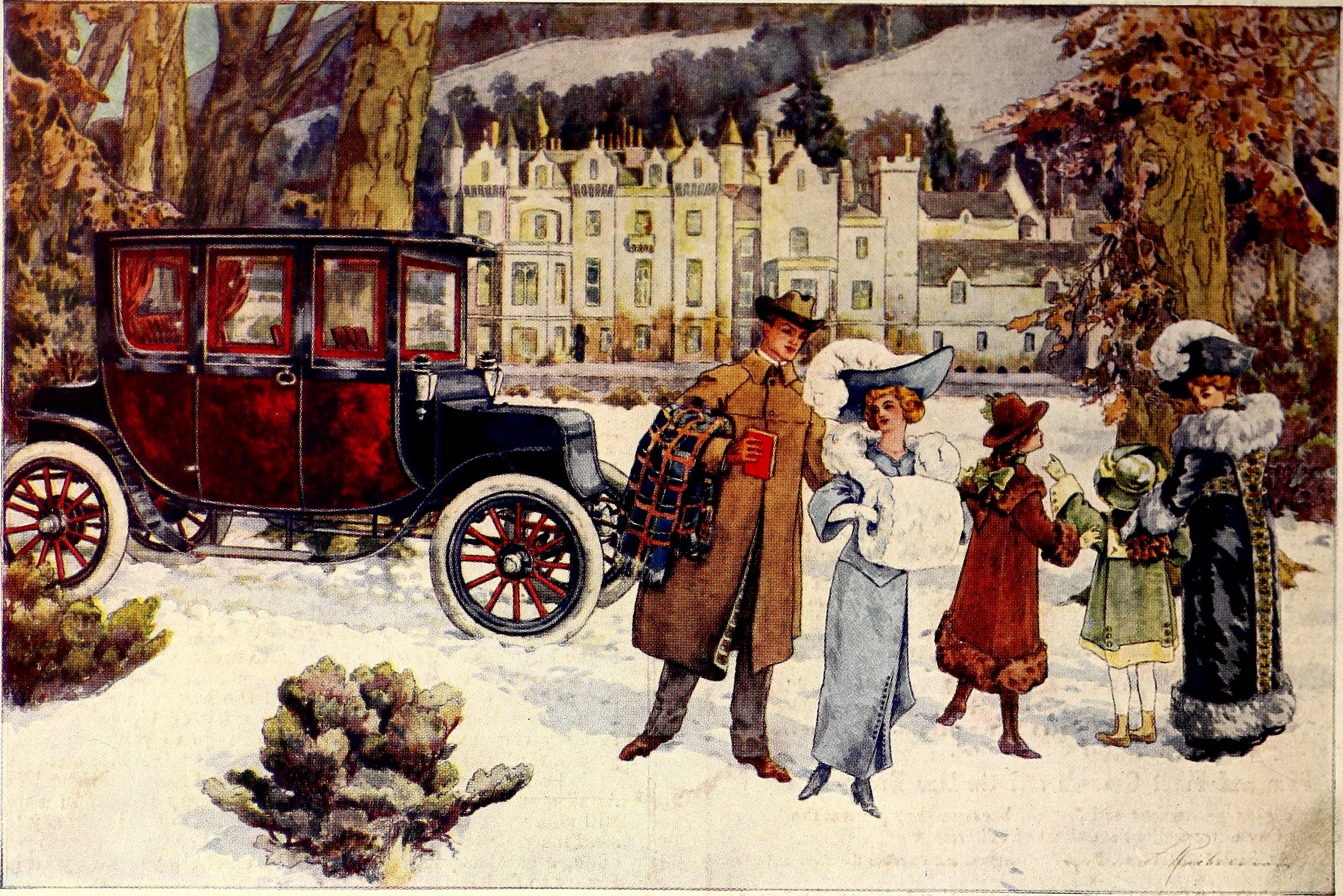 Title: American homes and gardens Year: 1905 (1900s) Authors: Subjects: Architecture, Domestic; Landscape gardening Publisher: New York : Munn and Co Text Appearing Before Image: w Text Appearing After Image: FULLY EQUIPPED, $3,500 The Town Car Luxurious for All Seasons W ON WINTER'S SNOW, and ice-clad avenues, or summer's smooth oiled boulevards, Silent Waverley Electric Limousine-Five gives the same sure, dependable performance, the same ideal luxury of town travel. Frost, snow and mud do not detain it. Extremes of weather do not put it out of commission. To freedom from noise, richness of upholstery and furnishing which distinguish the Silent Waverley Electrics, the Limousine-Five adds roominess which fulfills the last desire. Silent Waverley Electric Limousine-Five